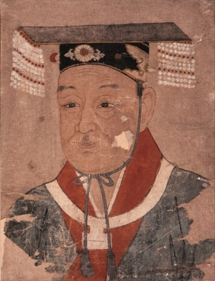 Shi Hao, minister, cí poet of the Song Dynasty